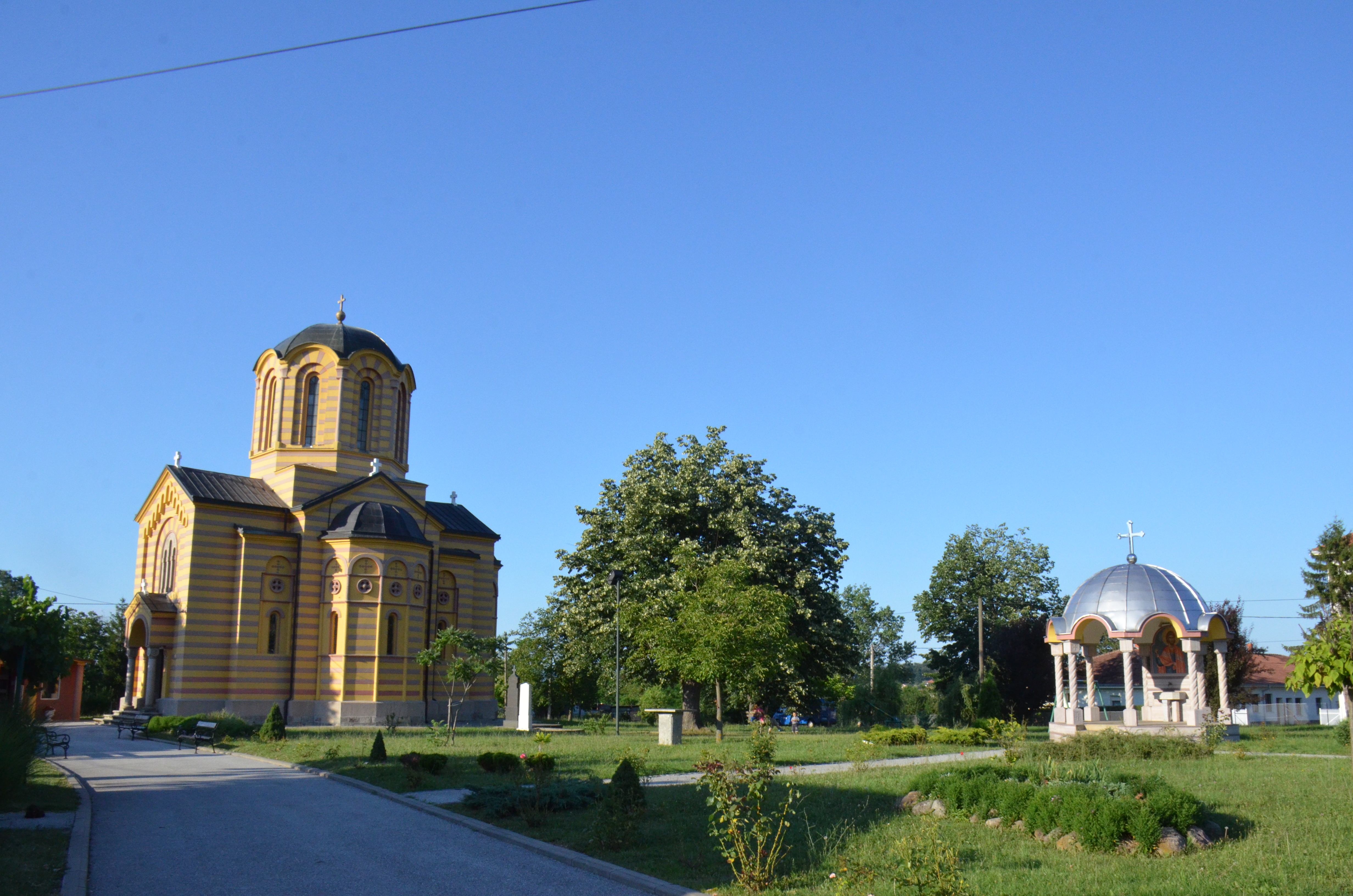 Zapis - Sacred Tree, Walnut in city, municipality Knić, Serbia Srpski (latinica): Zapis - orah kod crkve, grad Knić, Opština Knić, Šumadijski okrug, Srbija Српски (ћирилица): Запис - орах код цркве, град Кнић, Општина Кнић, Шумадијски округ, Србија